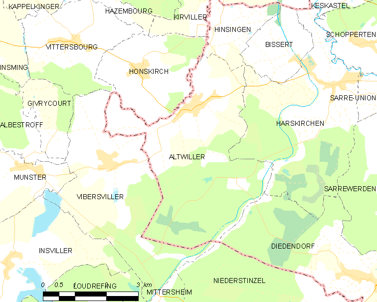 Map of French municipality